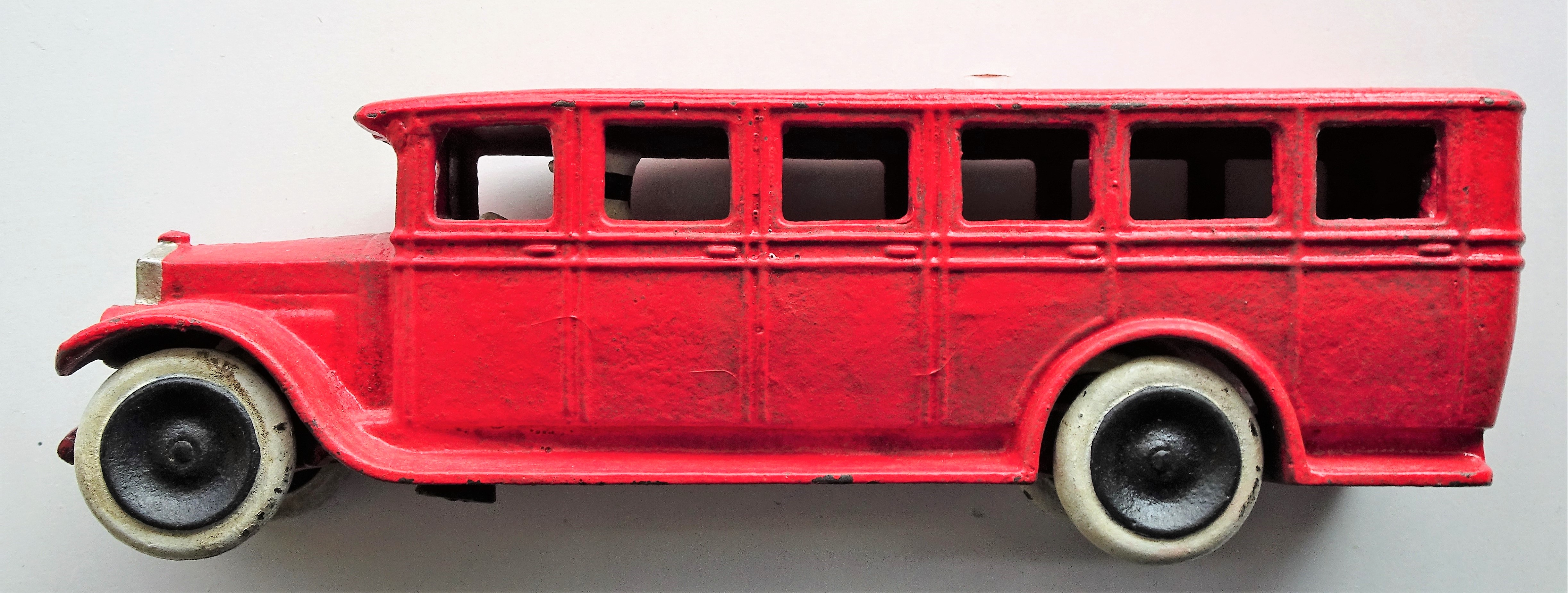 Skoglund & Olson toy bus with driver. Cast Iron model, Scania-Vabis, 1936, scale 1:30; weight 1,7 kg.